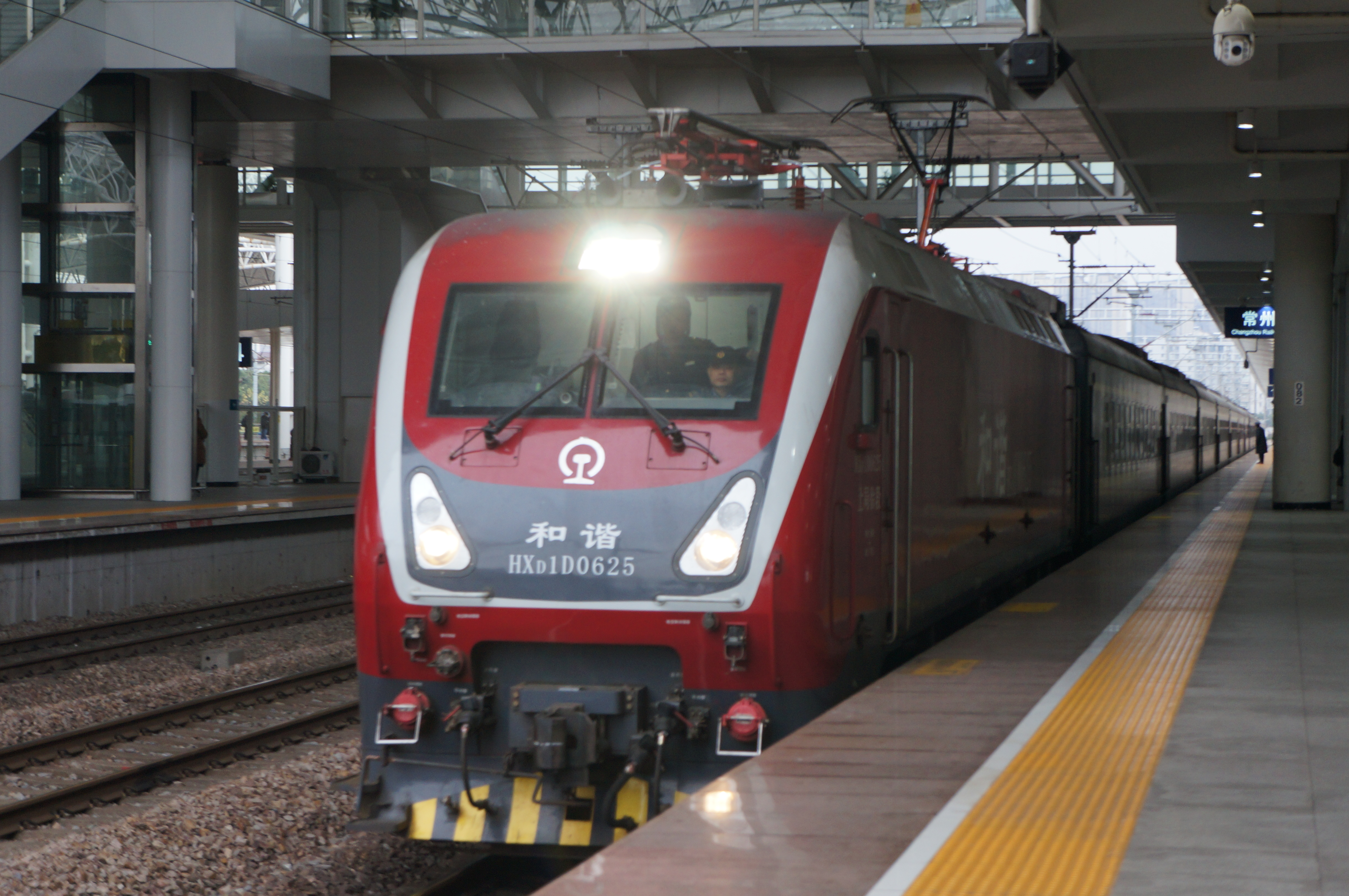 201812 HXD1D-0625 hauls K172 enters into Changzhou Station